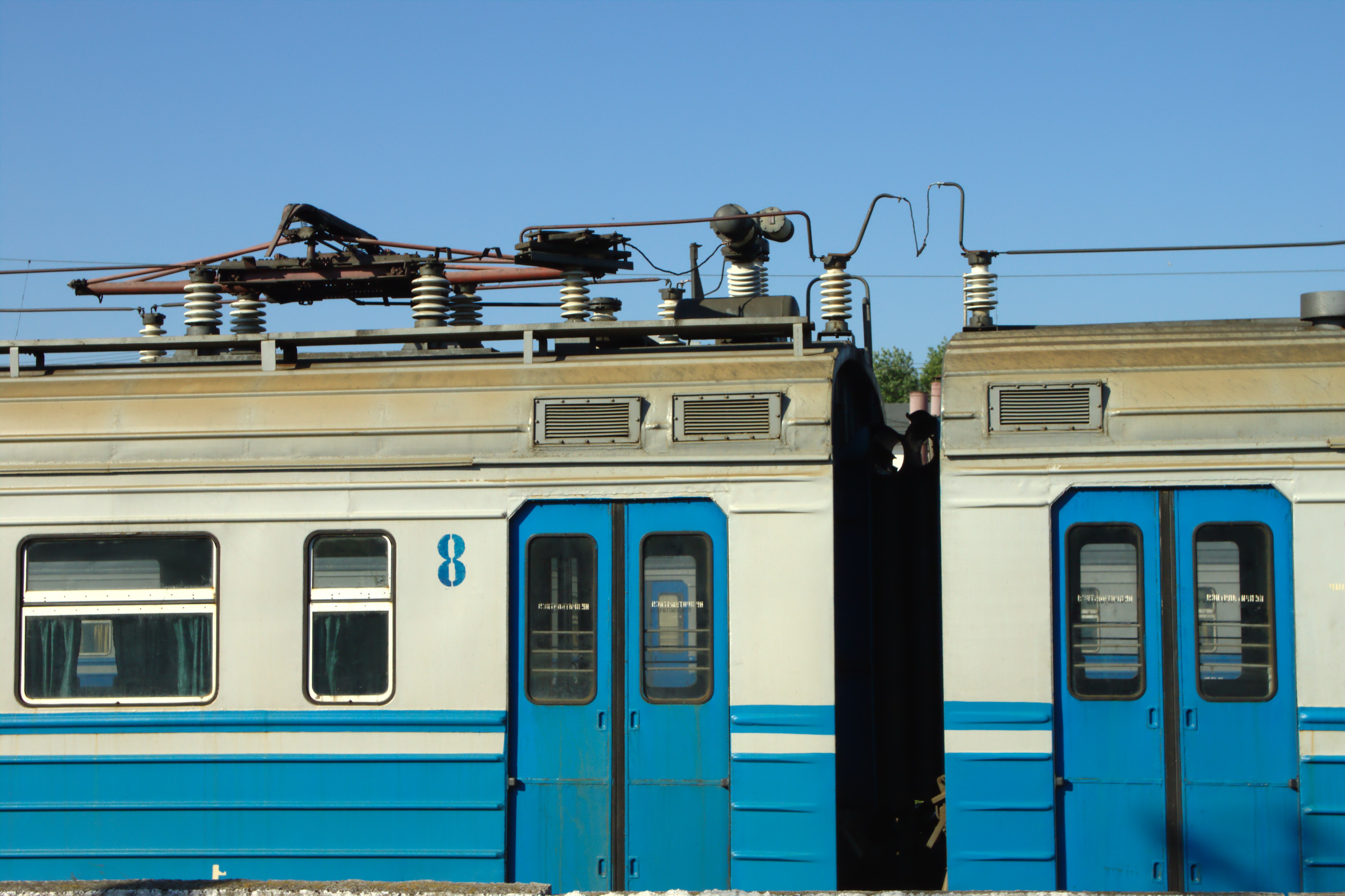 An suburbal ER9 train in a depot close to the Novodepovska station west from Odessa, Ukraine